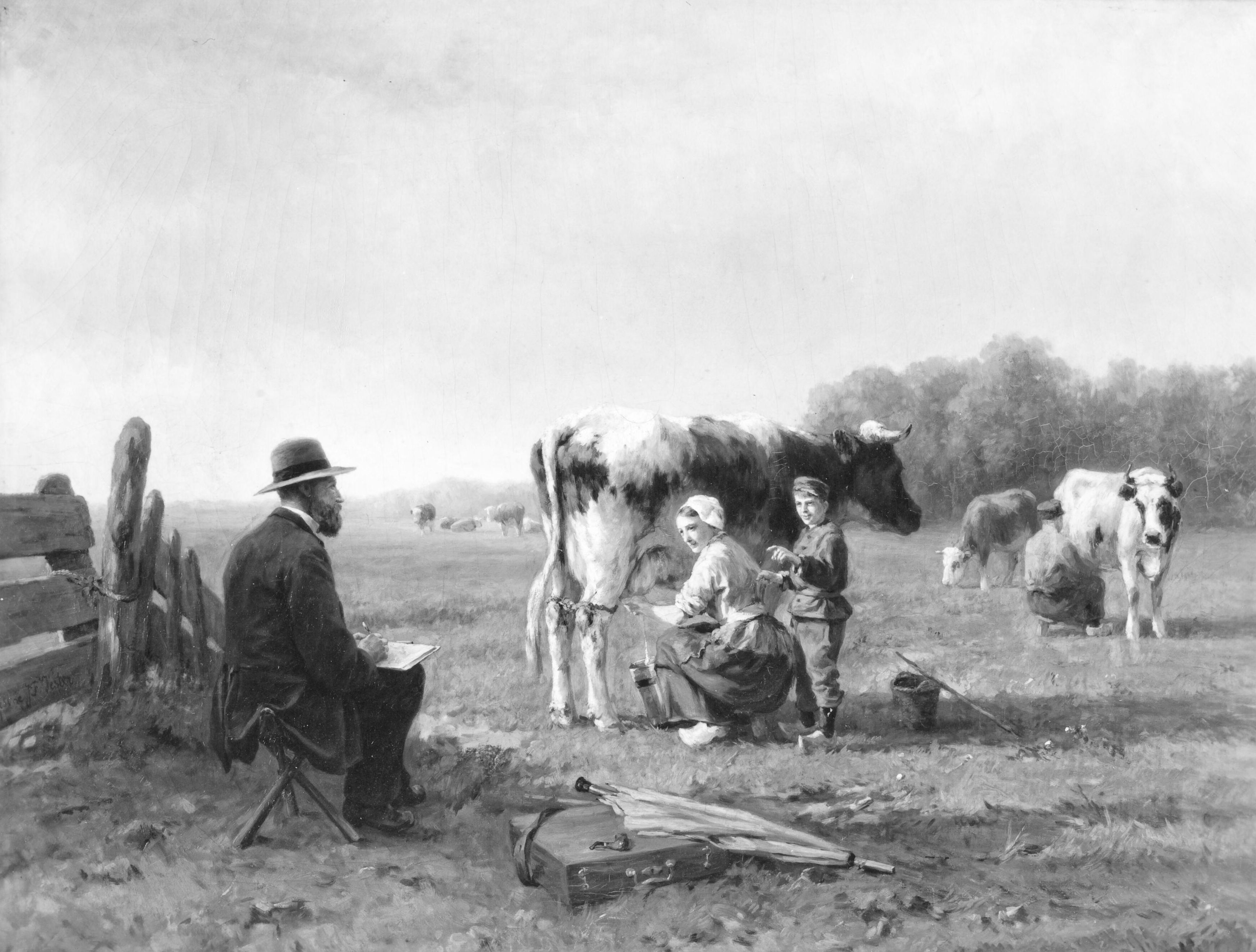 Willem Vester painting in a landscape, painted by his daughter Gesine Vester